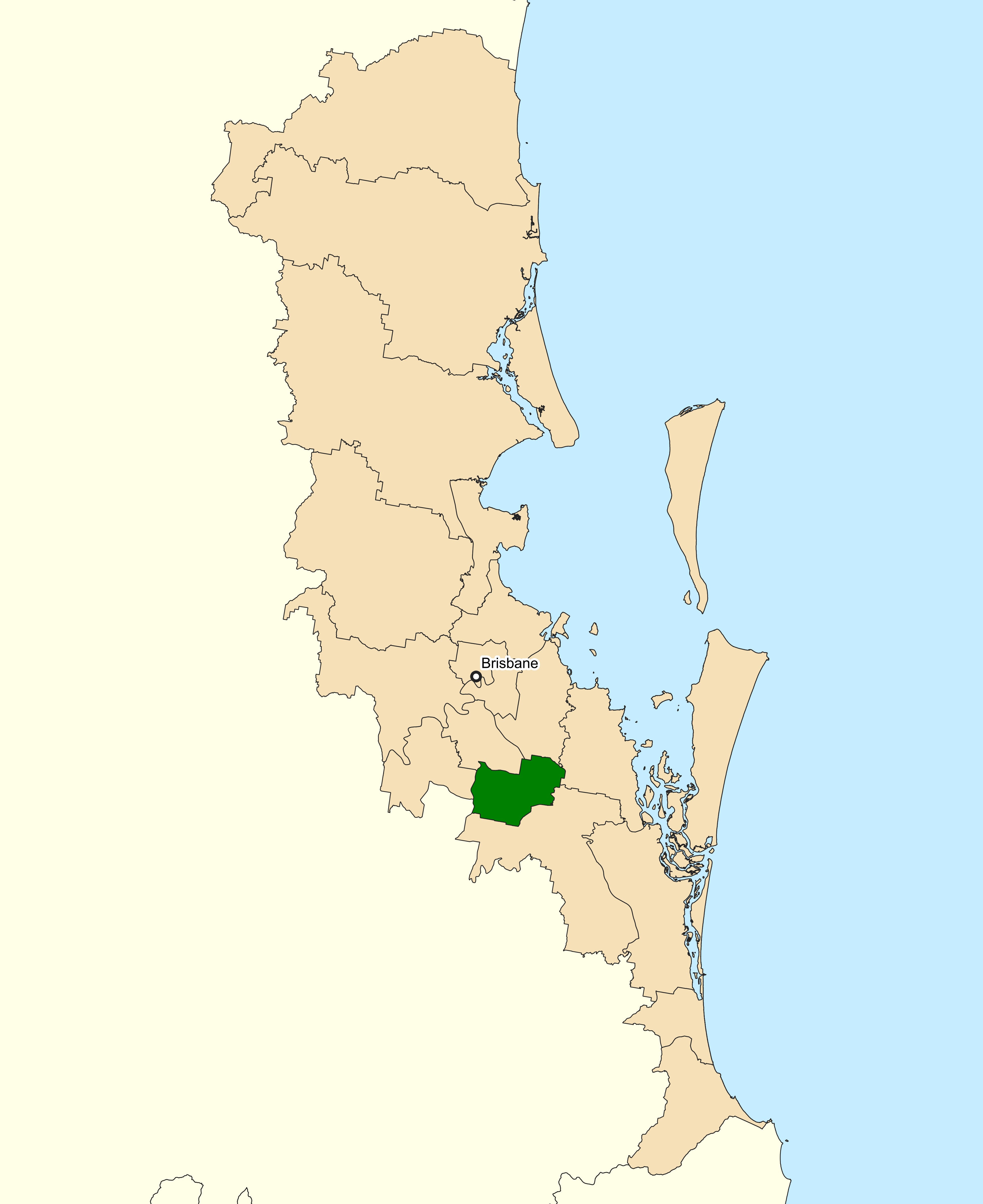 Location of the Australian federal electoral division of Rankin (dark green) in Greater Brisbane, Queensland as of the 2019 Australian federal election. Incorporates or developed using Administrative Boundaries ©PSMA Australia Limited licensed by the Commonwealth of Australia under Creative Commons Attribution 4.0 International licence (CC BY 4.0).